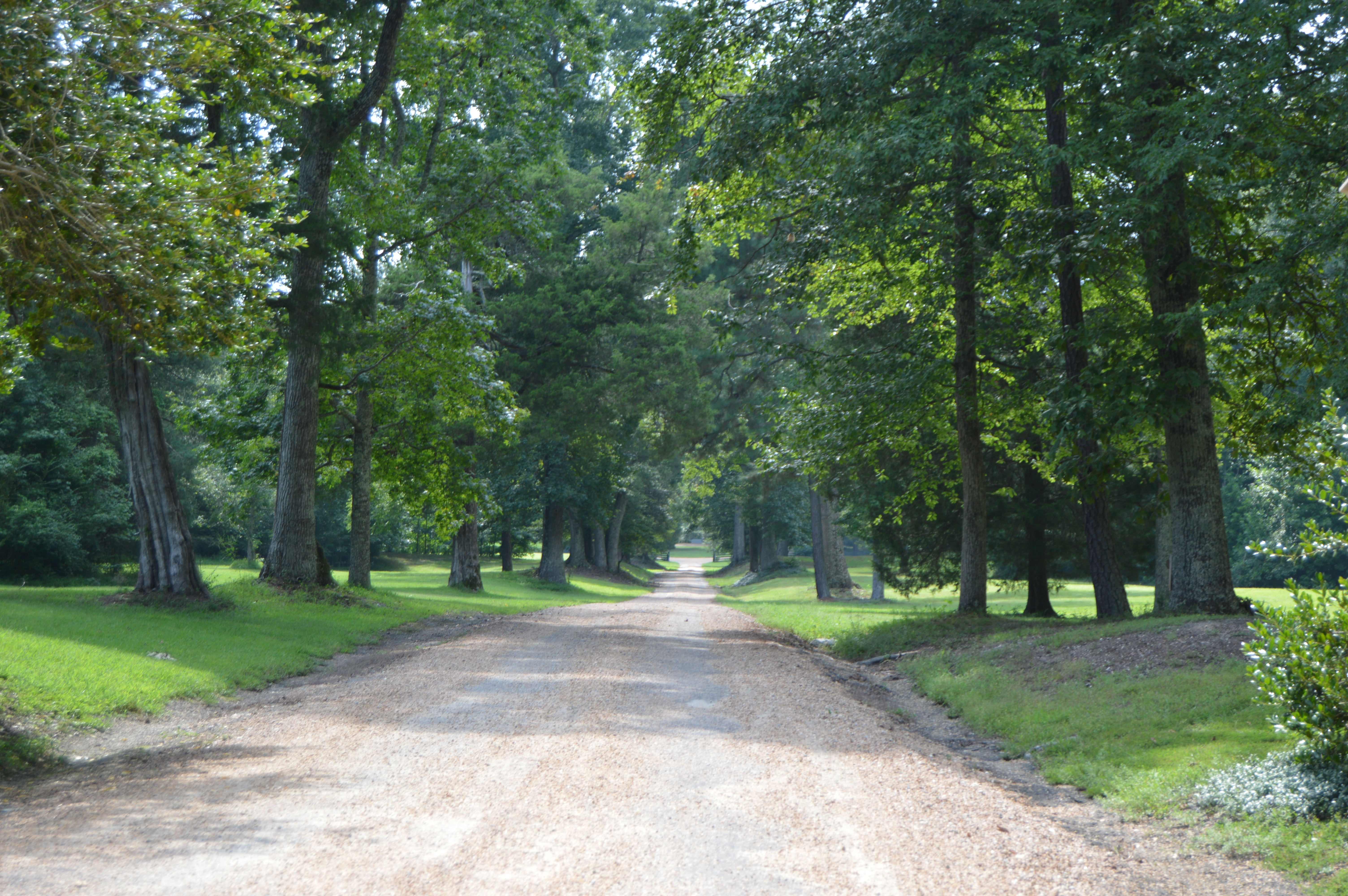 Entrance to the Williamsville property, located along Williamsville Road north of Studley in Hanover County, Virginia, United States. The property is listed on the National Register of Historic Places.